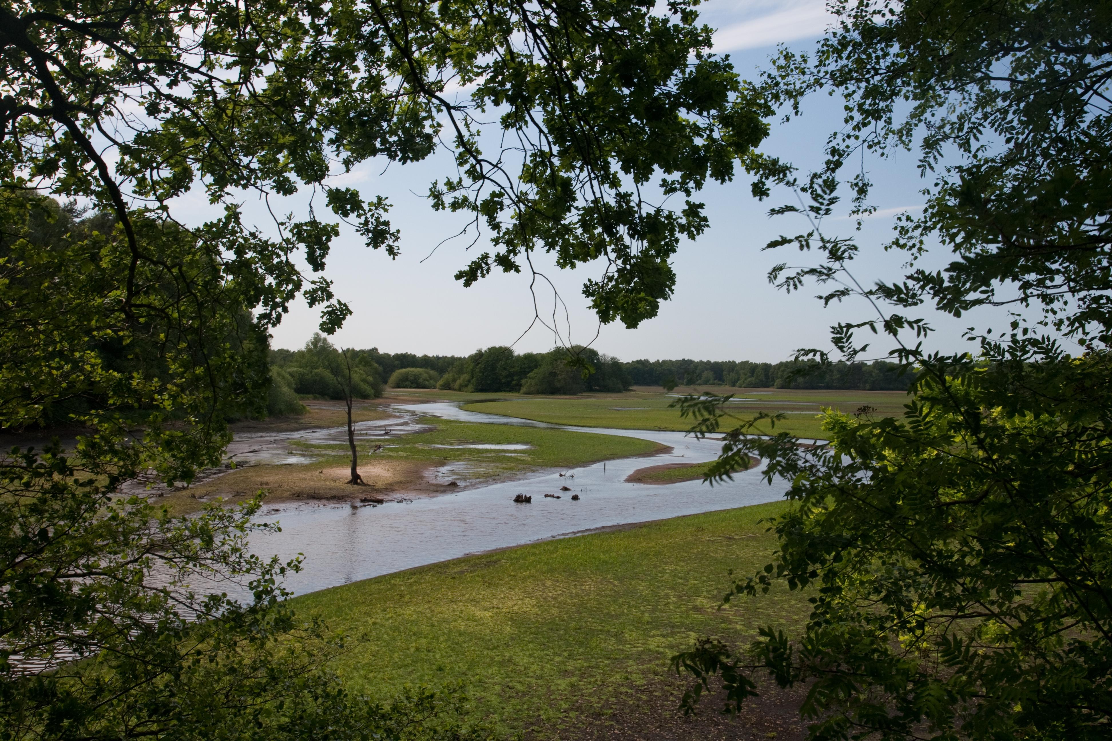 Soeste at the beginning of the Thülsfelde Reservoir